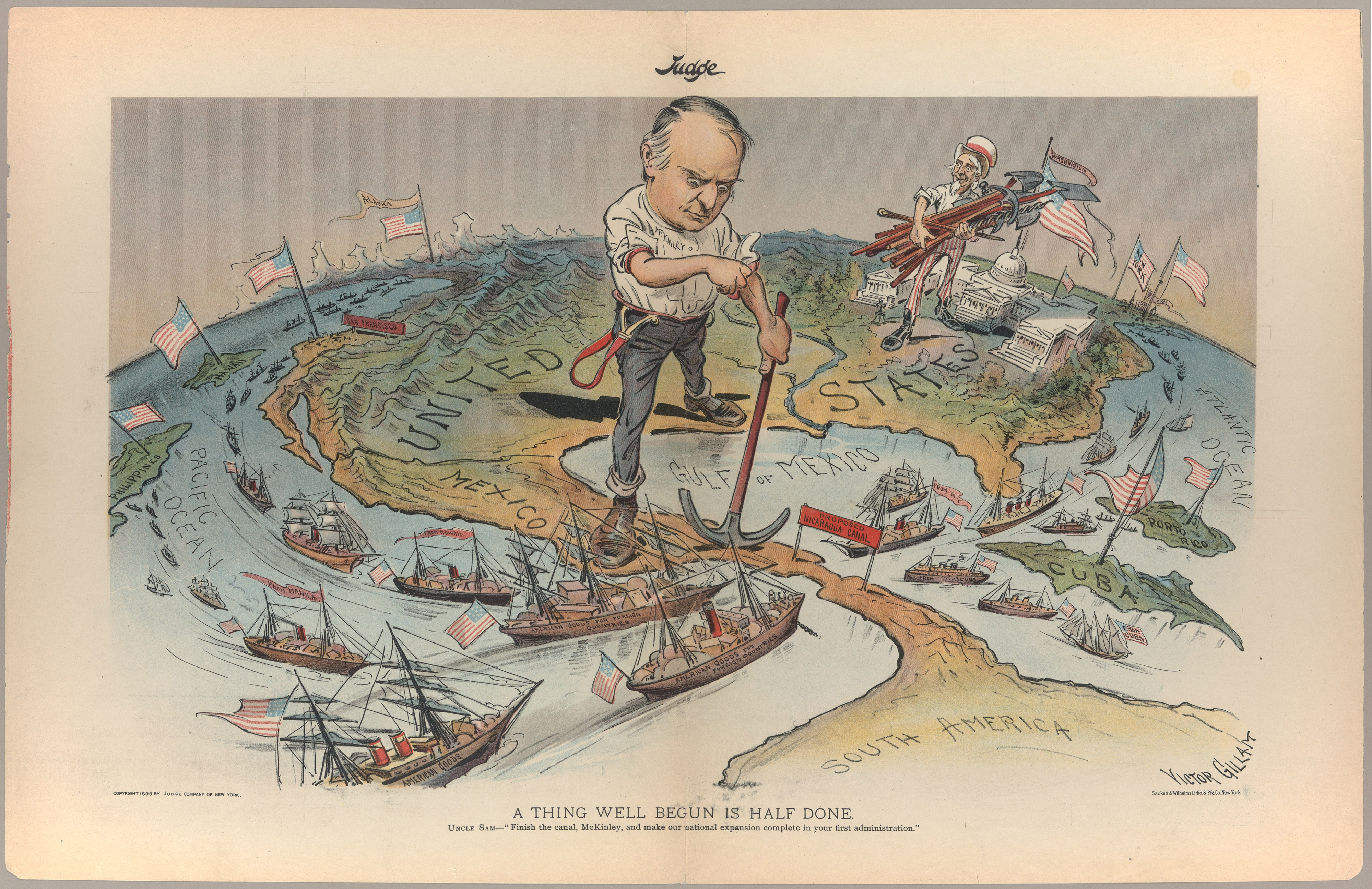 A satirical political cartoon reflecting America's imperial ambitions following quick and total victory in the Spanish American War of 1898.